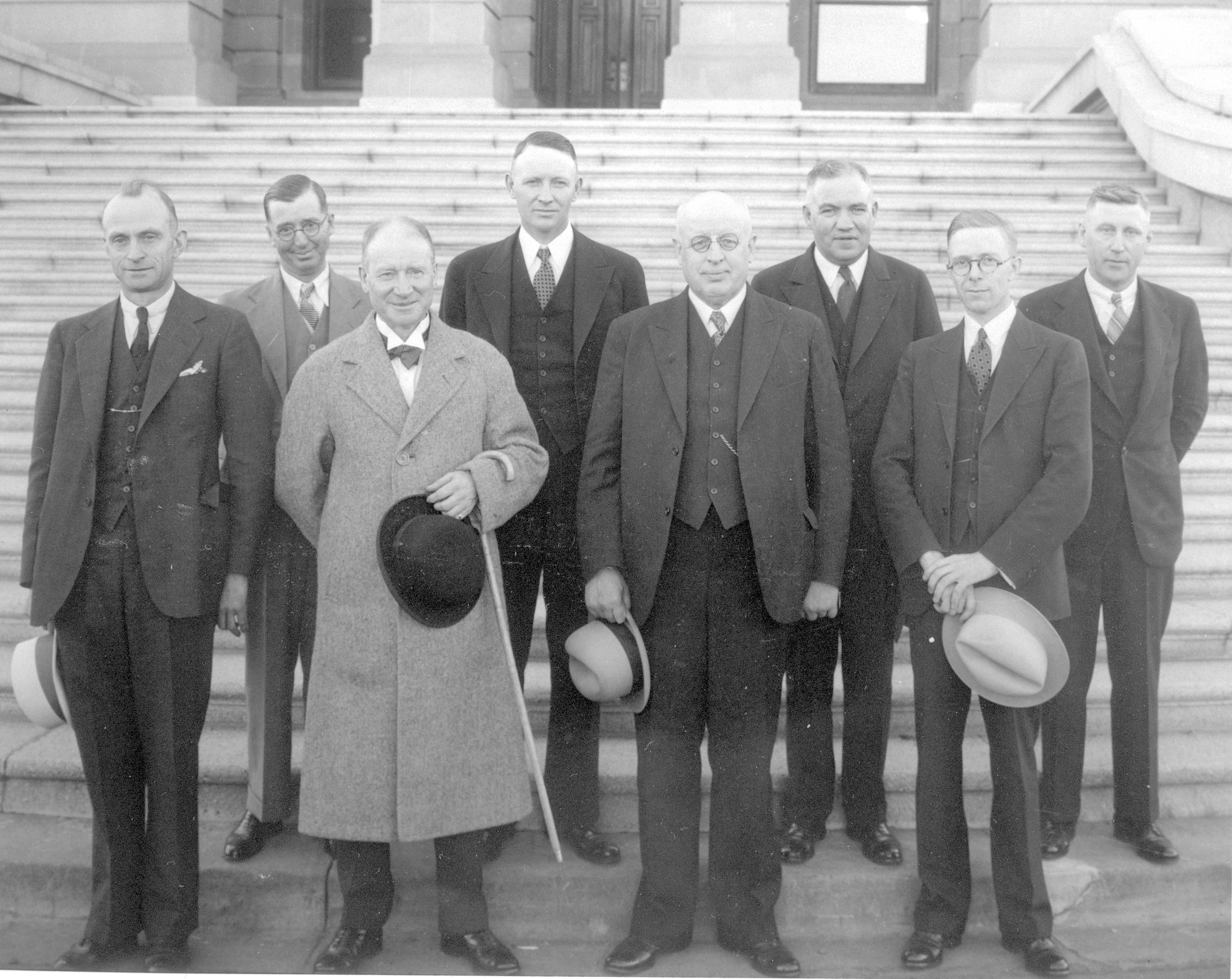 Premier William Aberhart and his cabinet pose on the Legislative Building steps. Front row, l-r: Charles C. Cockroft; John William Hugill; William Aberhart; Ernest Charles Manning. Back row, l-r: William Allen Fallow; William Neelands Chant; Charles C. Ross; Dr. Wallace Warren Cross.